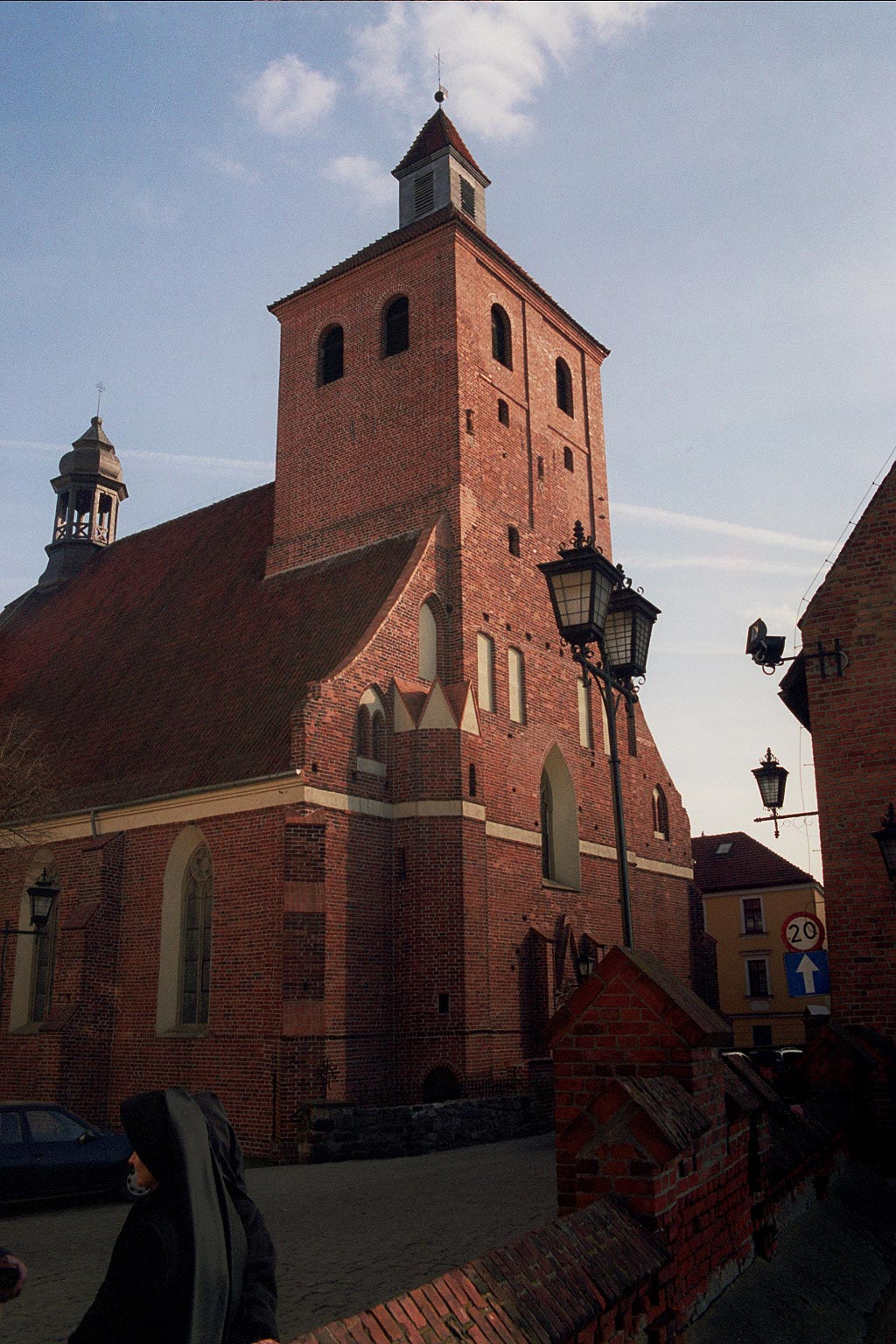 Grudziądz, church of St. Nicholas